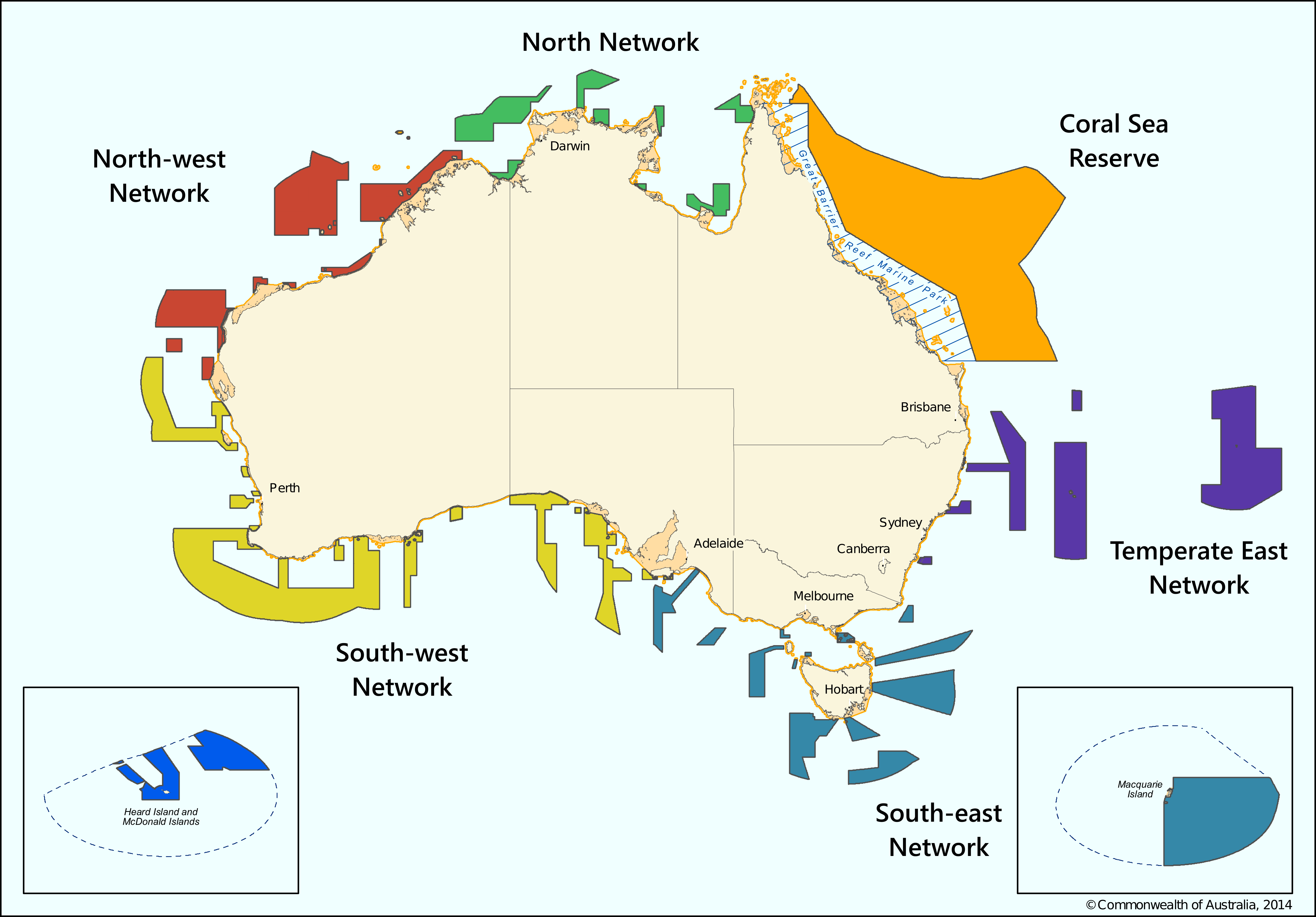 National map of Commonwealth marine reserve networks, colour-coded by network group. There are 5 networks plus the Coral Sea Commonwealth Marine Reserve and the Heard Island and McDonald Islands (HIMI) Marine Reserve.